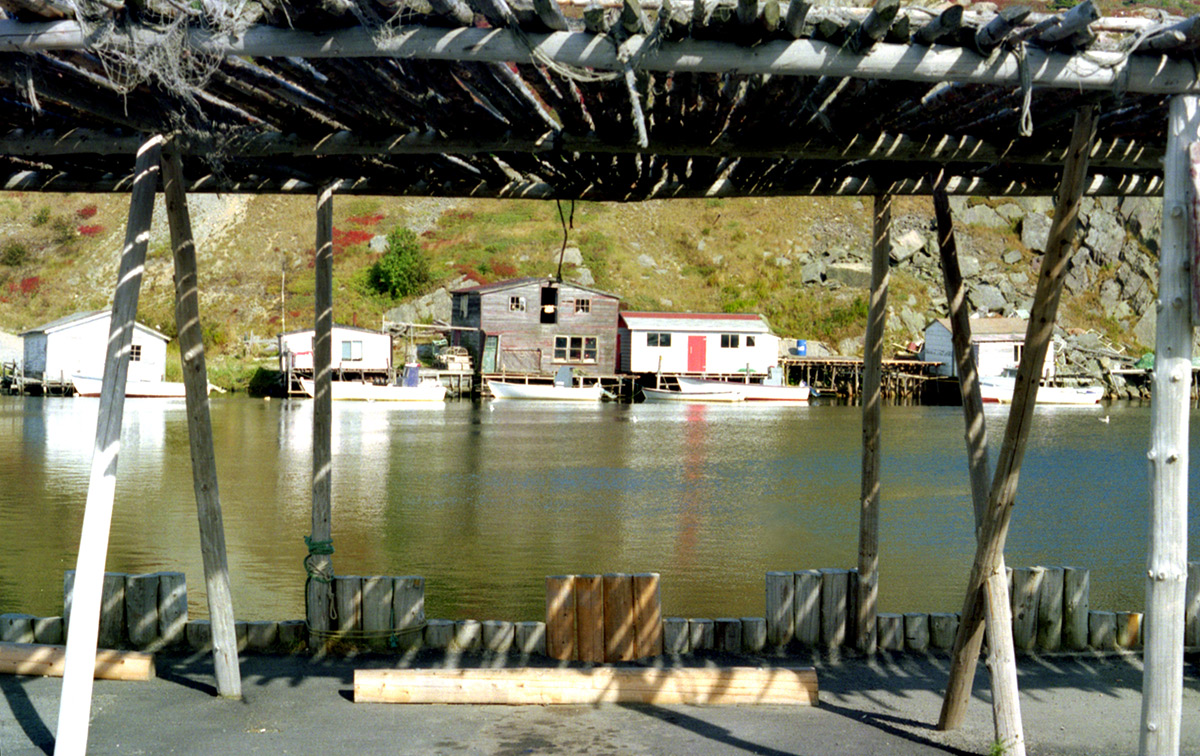 View through a fishstack in the Quidi Vidi village area of St. John's, Newfoundland, Canada